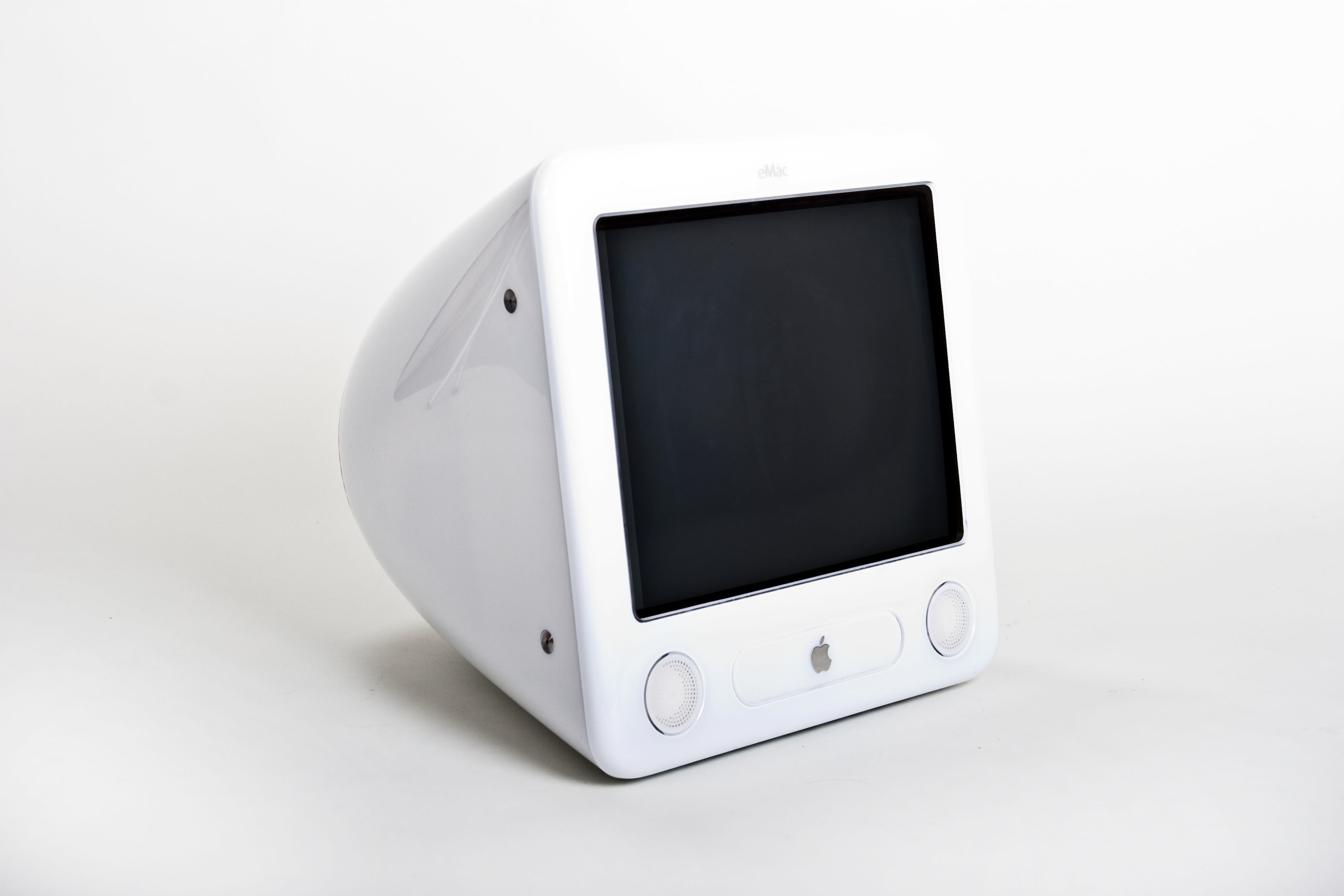 For more vintage Macintosh visit Mac Users Guide Photo Gallery . In 2002 the eMac debuted as the low-cost alternative to the new LCD iMac G4 "snowball". It was initially release exclusively for educational institutions, hence the "e" designation. As demand grew it was decided to make it available for the general public. The 2005 Apple eMac G4 features a 1.25 GHz PowerPC processor with 515k and a level 2 cache. This particular model has 512 MB installed RAM, SuperDrive and a ATI Radeon 9200 graphics card.